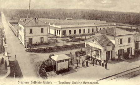 Solbiate-Albiolo railway station